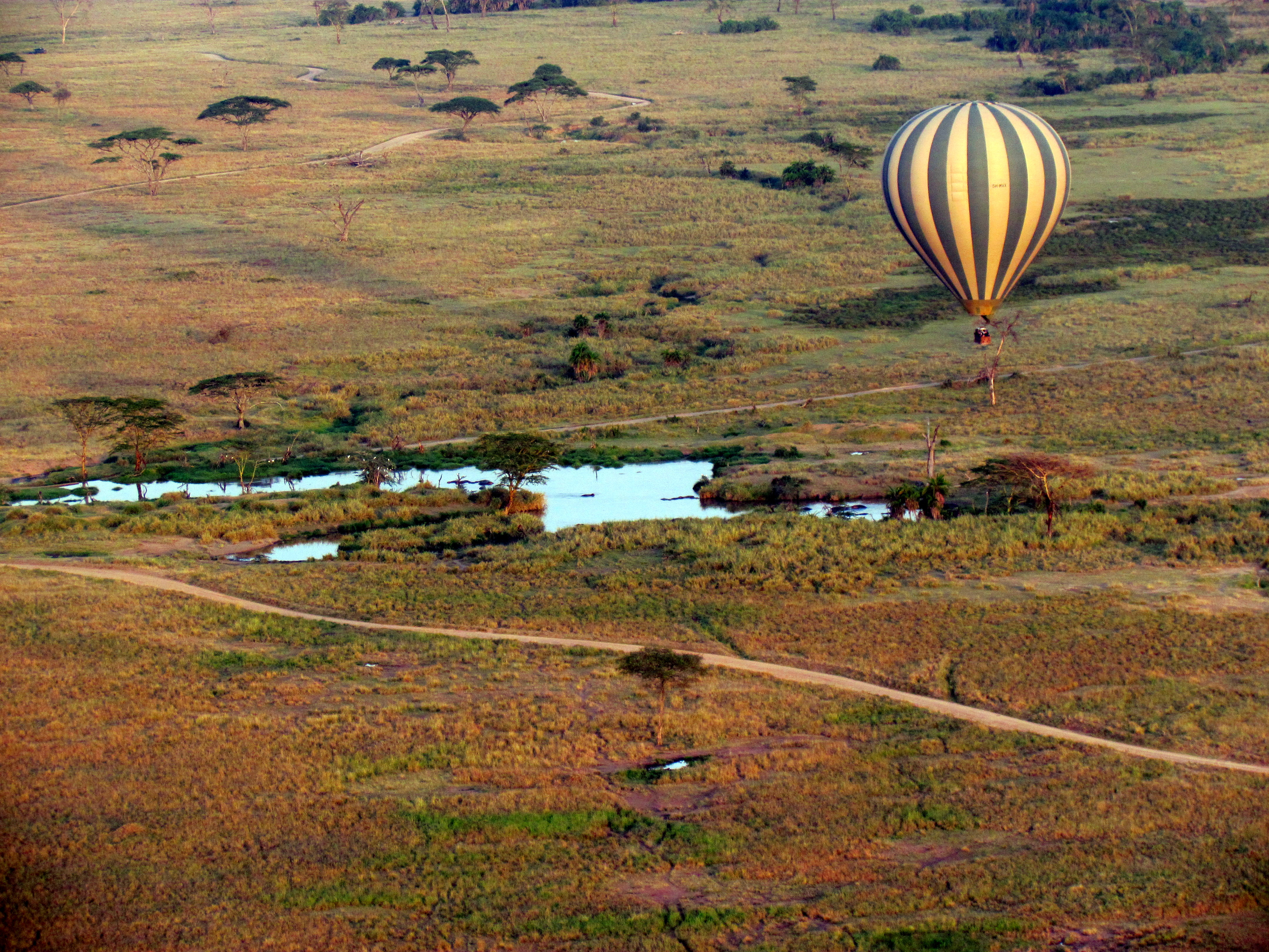 Serengeti Hot Air Balloon Ride - Serengeti National Park - Tanzania, Africa